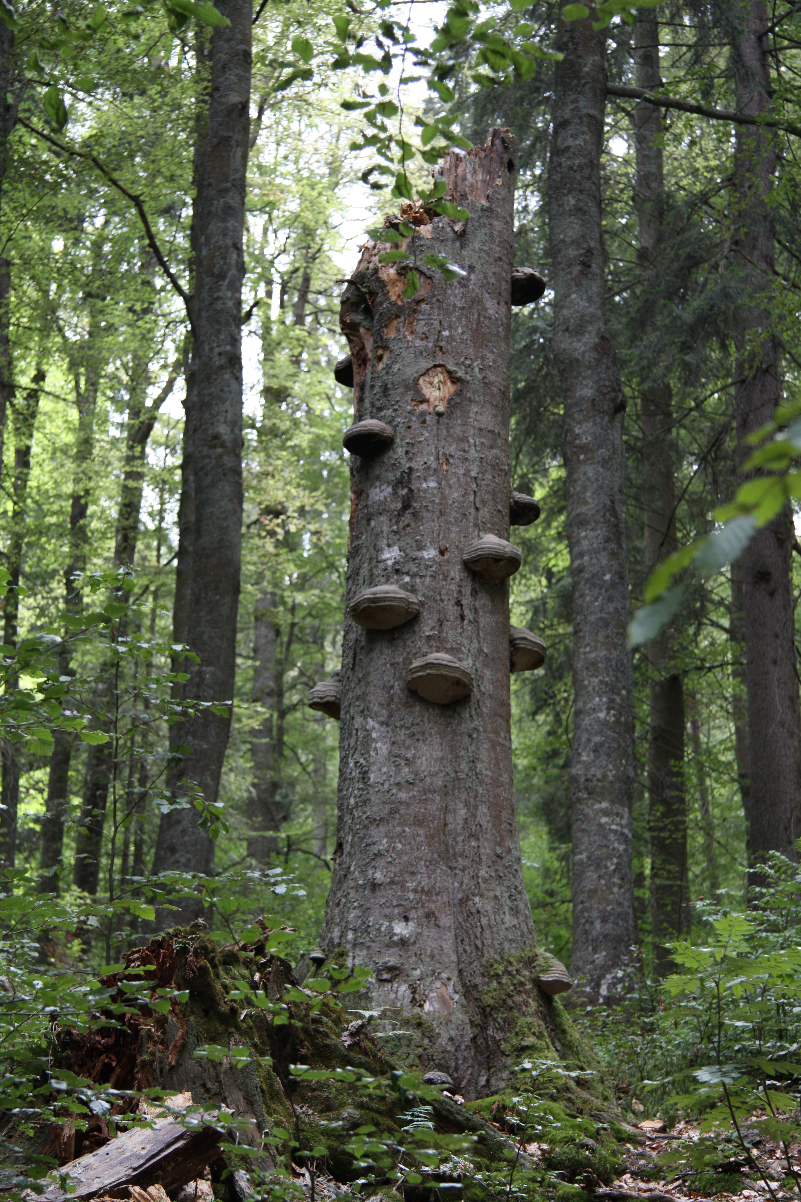 National nature reserve Boubínský prales during NS Boubínský prales trail, Prachatice District, Czech Republic - Google Maps - Google Earth